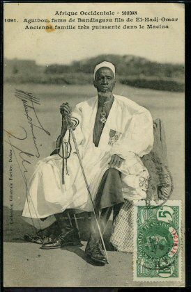 "Aguibou, fama of Bandiagara, son of El-Hadj-Omar. Very old and powerfull family of Macina."